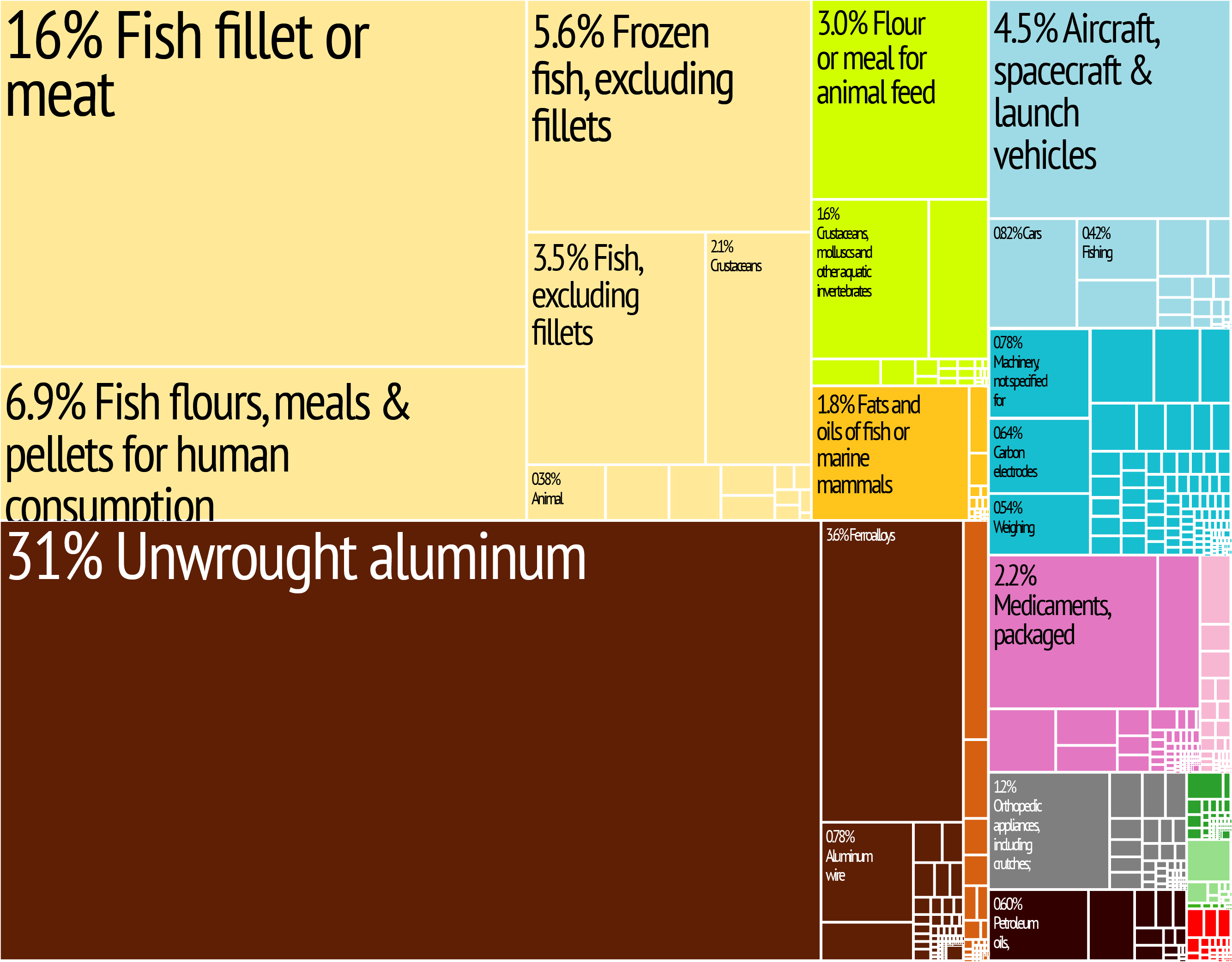 Iceland Export Treemap from MIT Harvard Economic Complexity Observatory